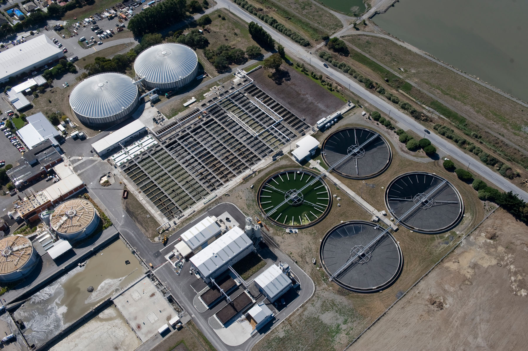 Aerial image of Christchurch suburbs for the Earthquake Commission 20110227_WN_S1015650_0034 Crown Copyright 2011, NZ Defence Force – Some Rights Reserved.